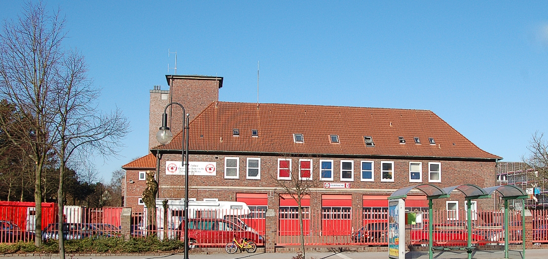 Pictures from Cuxhaven